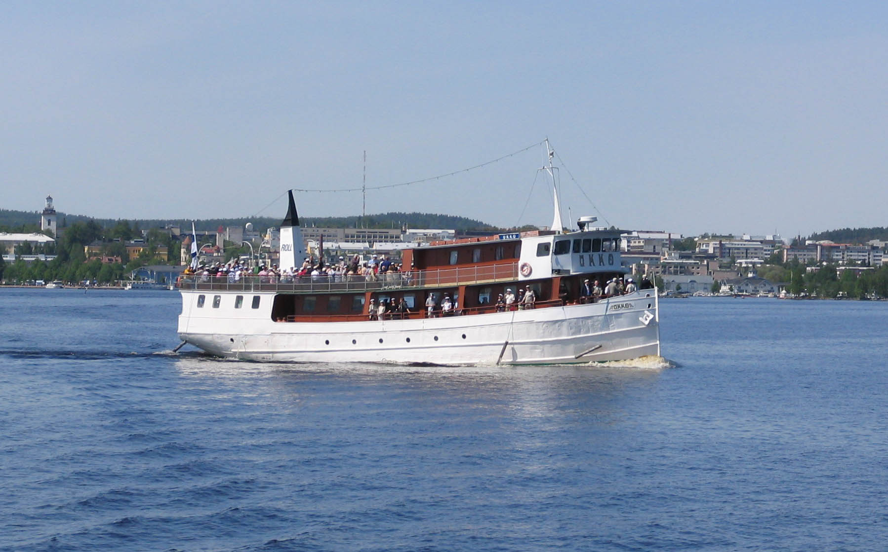 M/S Ukko on Lake Kallavesi near Kuopio city in Finland